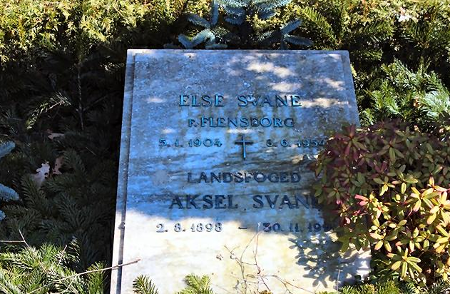 Могила датского и гренландского деятеля - Акселя Сване.